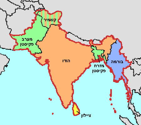 Partition_of_India_no_lang